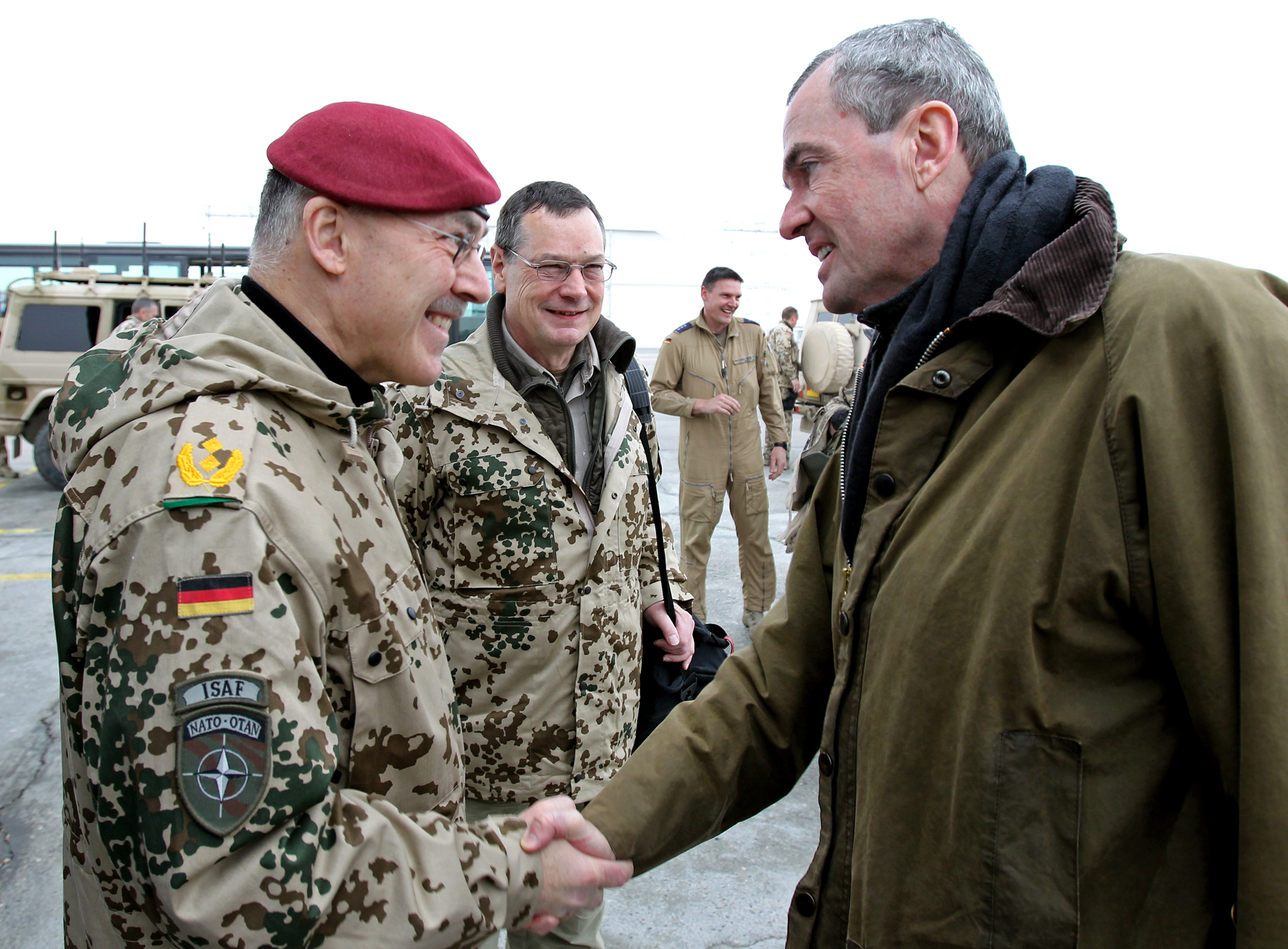 U.S. Ambassador to Germany Philip D. Murphy is greeted by the commander of Regional Command-North, Maj. Gen. Hans-Werner Fritz of the German Bundeswehr, at the airfield of Camp Marmal in Masar-E Sharif, Afghanistan, Jan. 11. The ambassador visited Afghanistan to get an overview of the cooperative efforts of multinational forces there. The ombudsman for military affairs for the German parliament, Hellmut Koenigshaus (center), also took part in t he visit. (Bundeswehr photo by Sebastian Wilke)